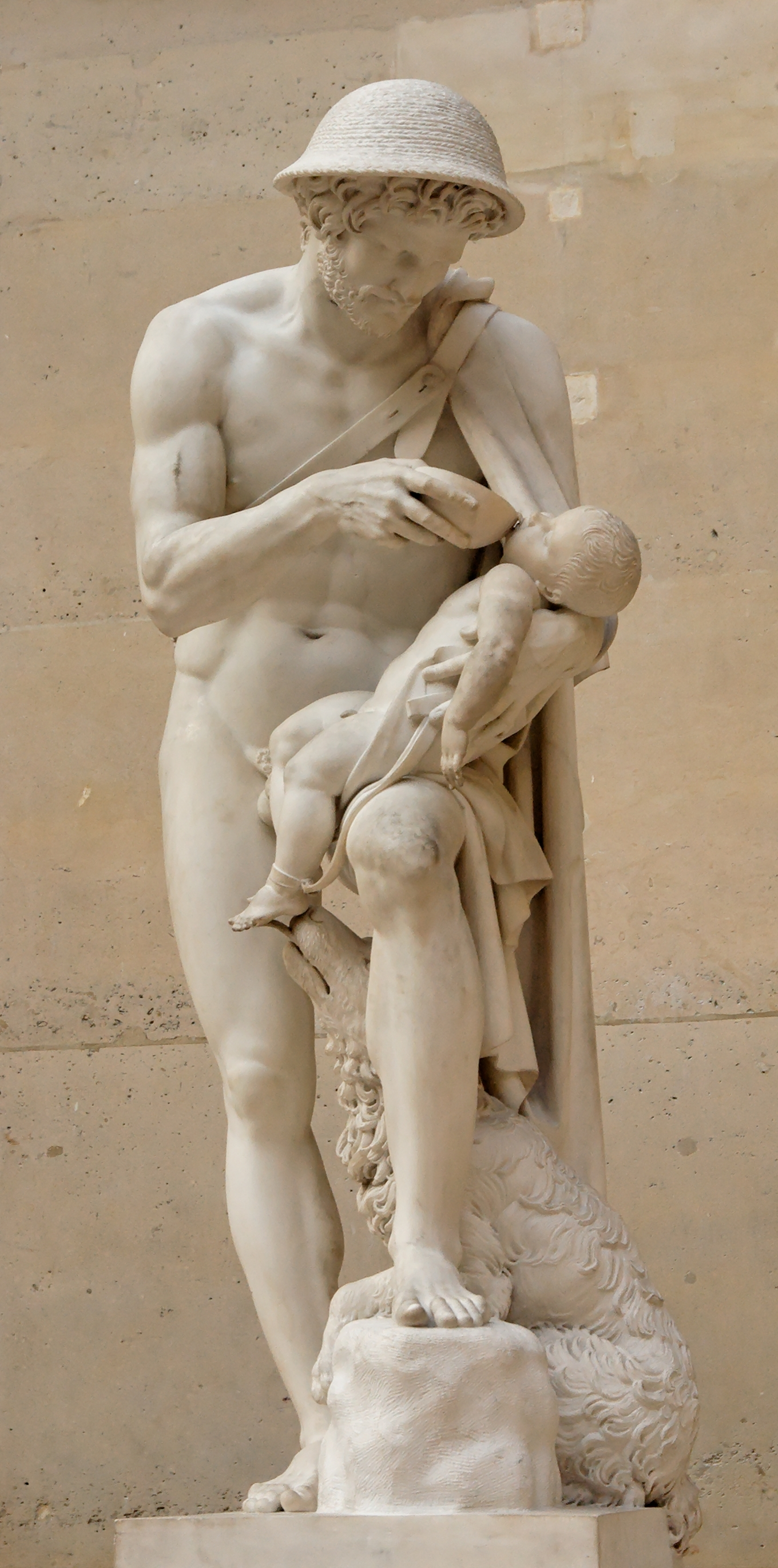 A plaster model was exhibited at the Salon of 1801. Completed by Pierre Cartellier (1757–1831) and Louis-Marie Dupaty (1771–1825) after Chaudet's death.